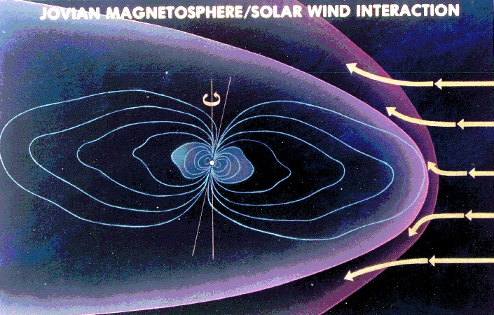 Interactions between solar wind and jovian magnetosphere